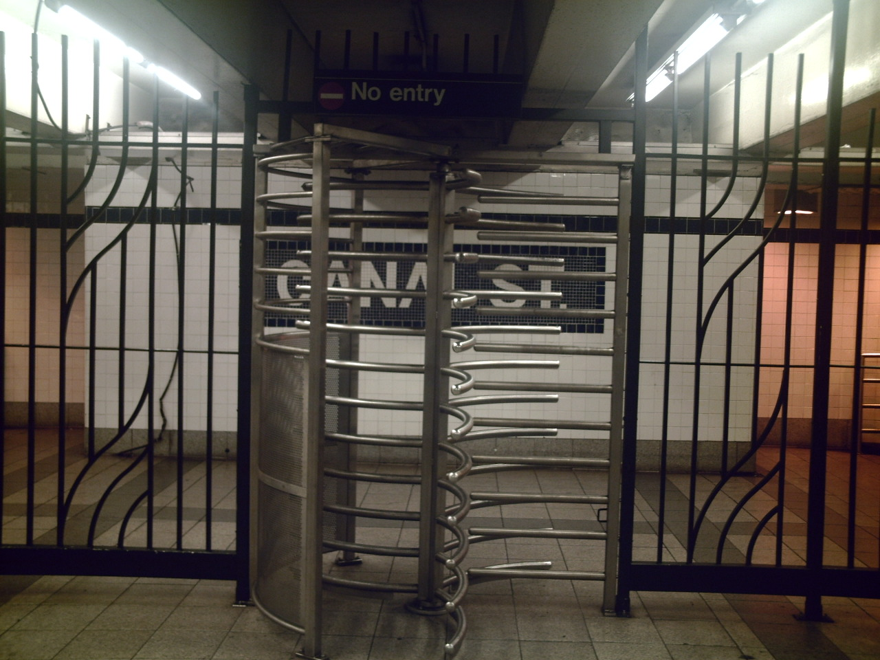 Exit-only turnstile from the southbound platform at Canal Street